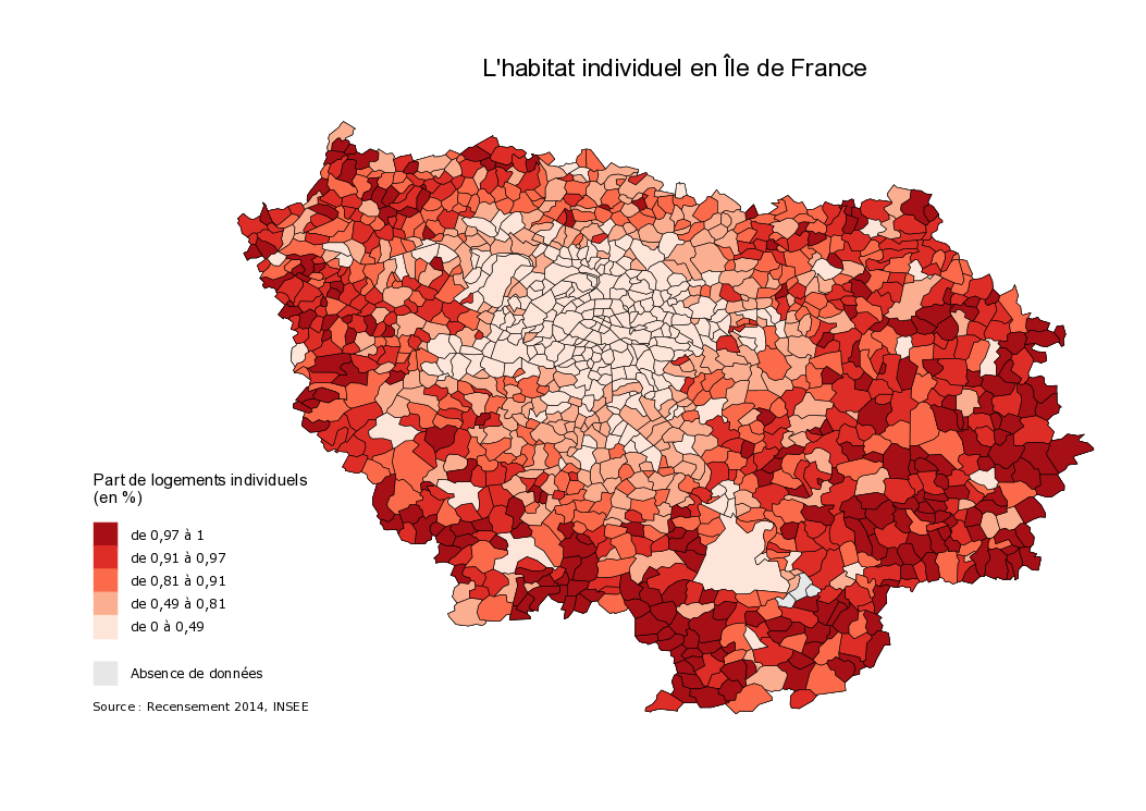 L'habitat individuel est plus concentré en deuxième couronne que dans le centre de Paris